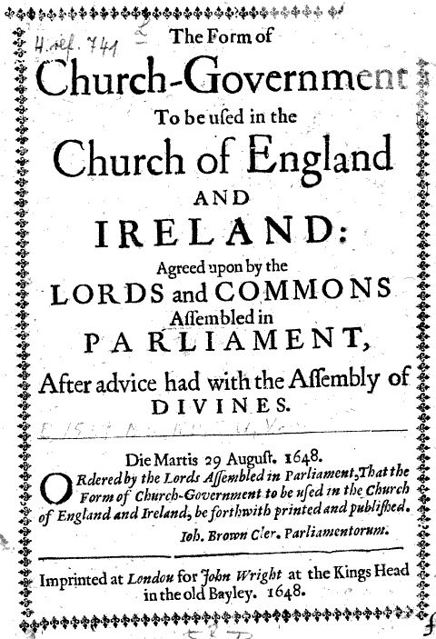 Title page of Form of Presbyterial Church Government